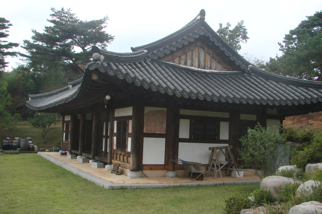 전라남도 보성군 보성읍 우산리 473번지에 위치한 은봉 종가의 종택이다. 안방준(安邦俊) - 안후지(安厚之) - 안전(安峑) - 안두상(安斗相) - 안세현(安世賢) - 안창노(安昌老) - 안처악(安處岳) - 안명대(安命大) - 안권(安權) - 안영환(安永煥) - 안규삼(安圭三) - 안종묵(安鍾黙) - 안옥순(安玉淳) - 안병문(安秉文) - 안용섭(安龍燮)에 이어서 16세손 안재호(安在祜)까지 역대 종손들이 지켜왔다.